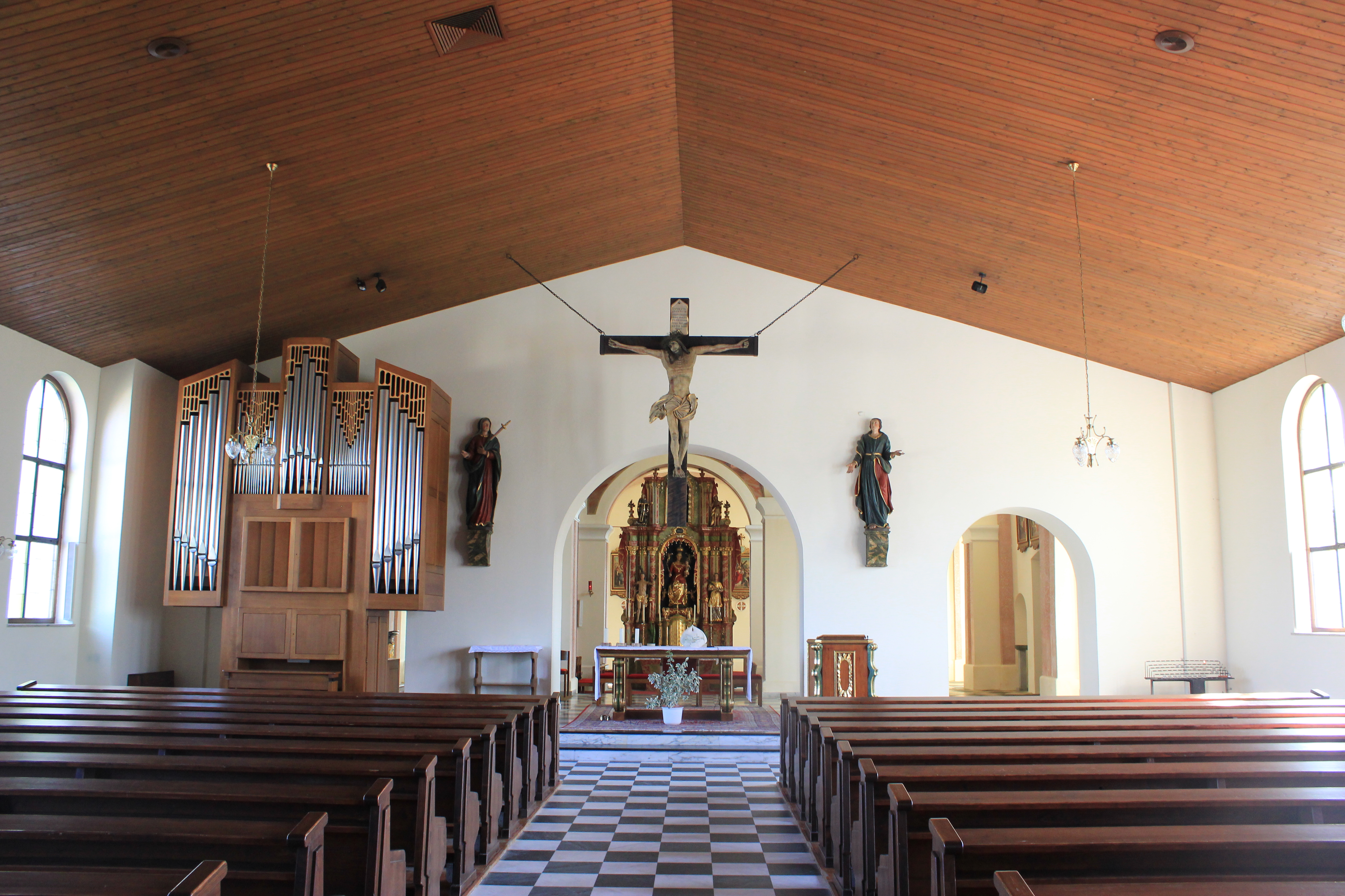 Parish church of Sankt Kanzian am Klopeiner See